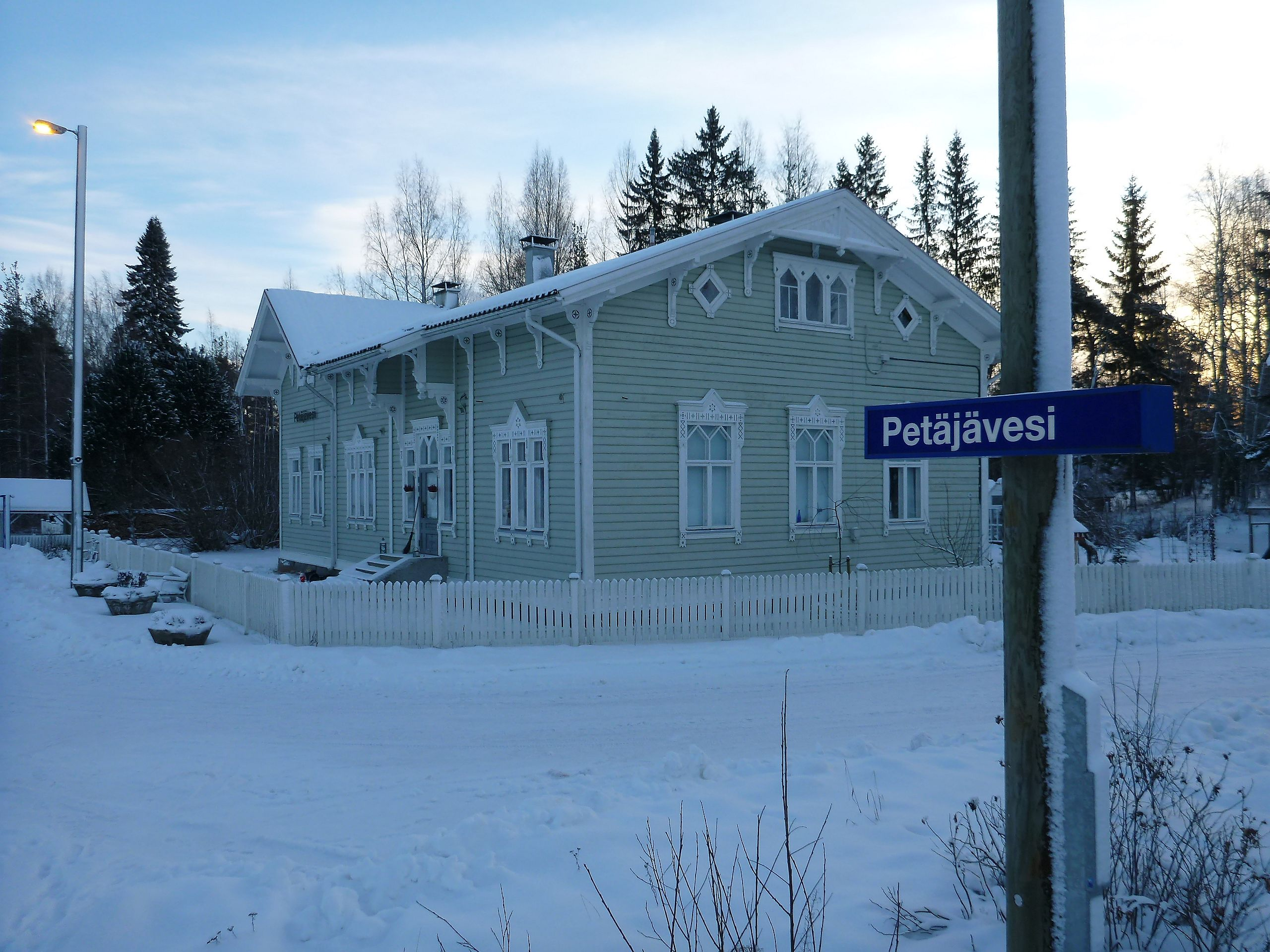 Petäjävesi railway station